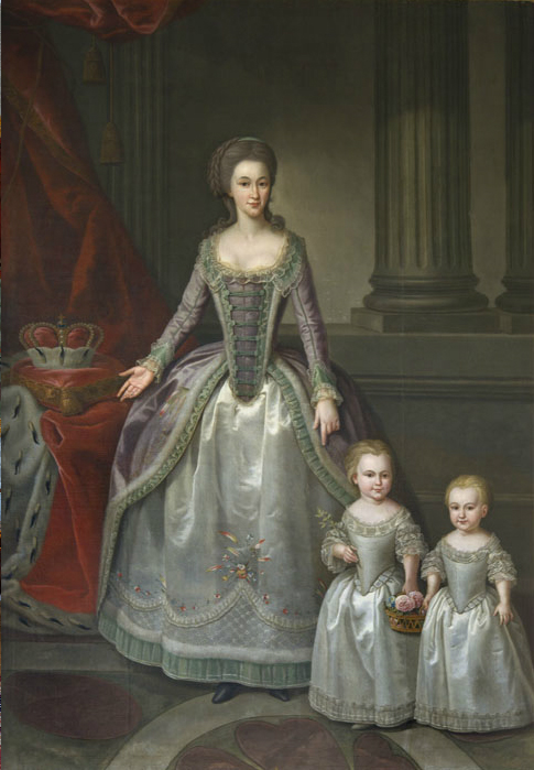 Portrait of Anna Charlotte Dorothea von Medem with daughters Wilhelmine and Pauline